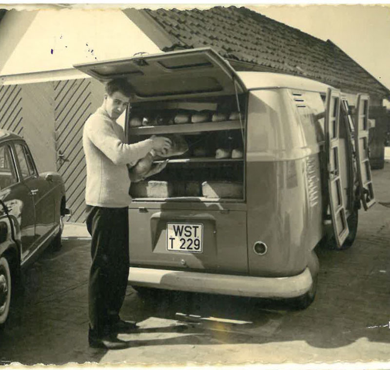 Johann Müller Bäckereimobil